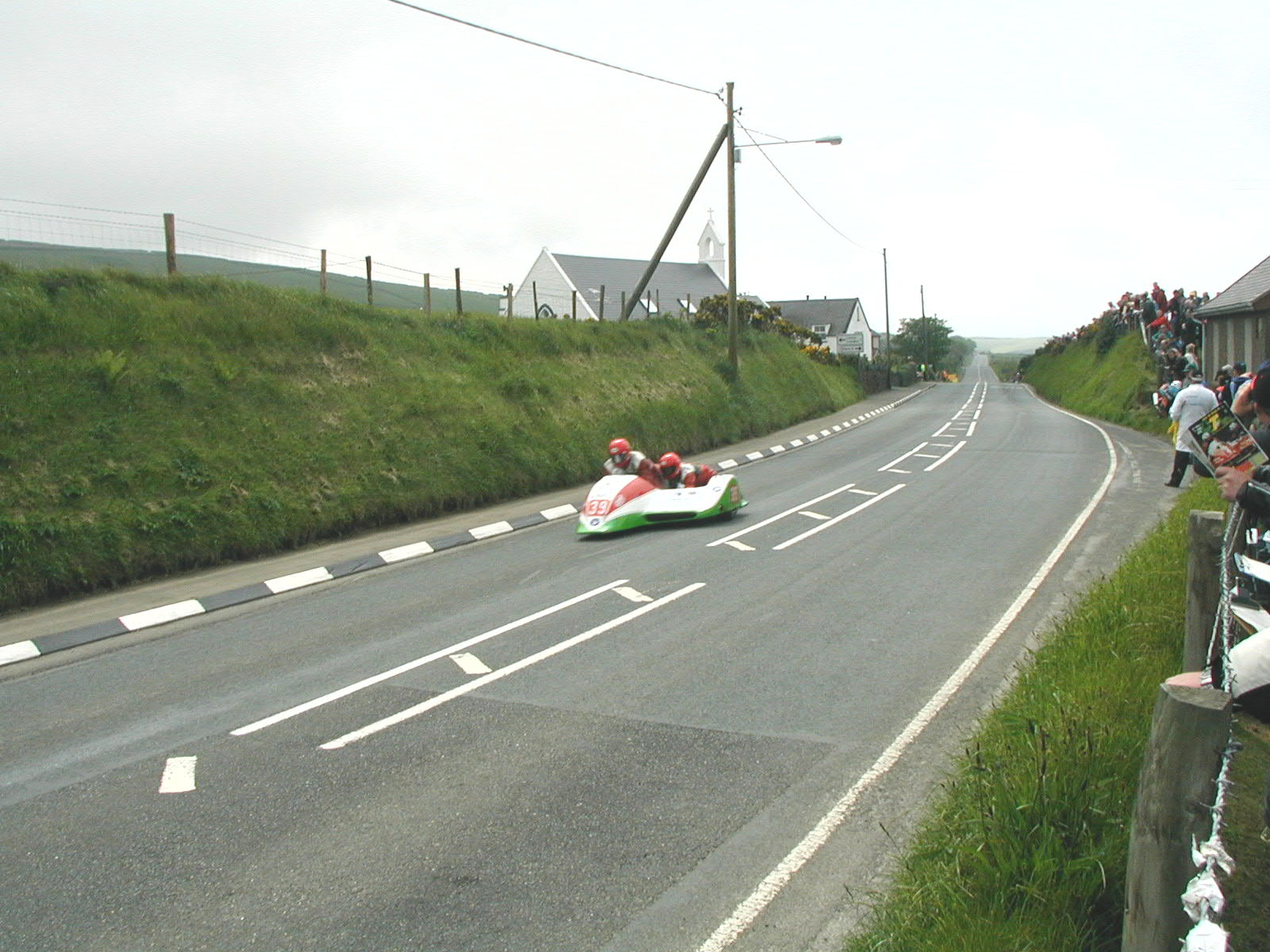 Sidecar crew Keith Walters & Gary Masterman aboard a Trevor Ireson chassis during Sidecat B TT race in 2002 at the right-hander known as Molyneux's since 2013 at the end of Cronk-y-Voddy straight visible stretching into the distance